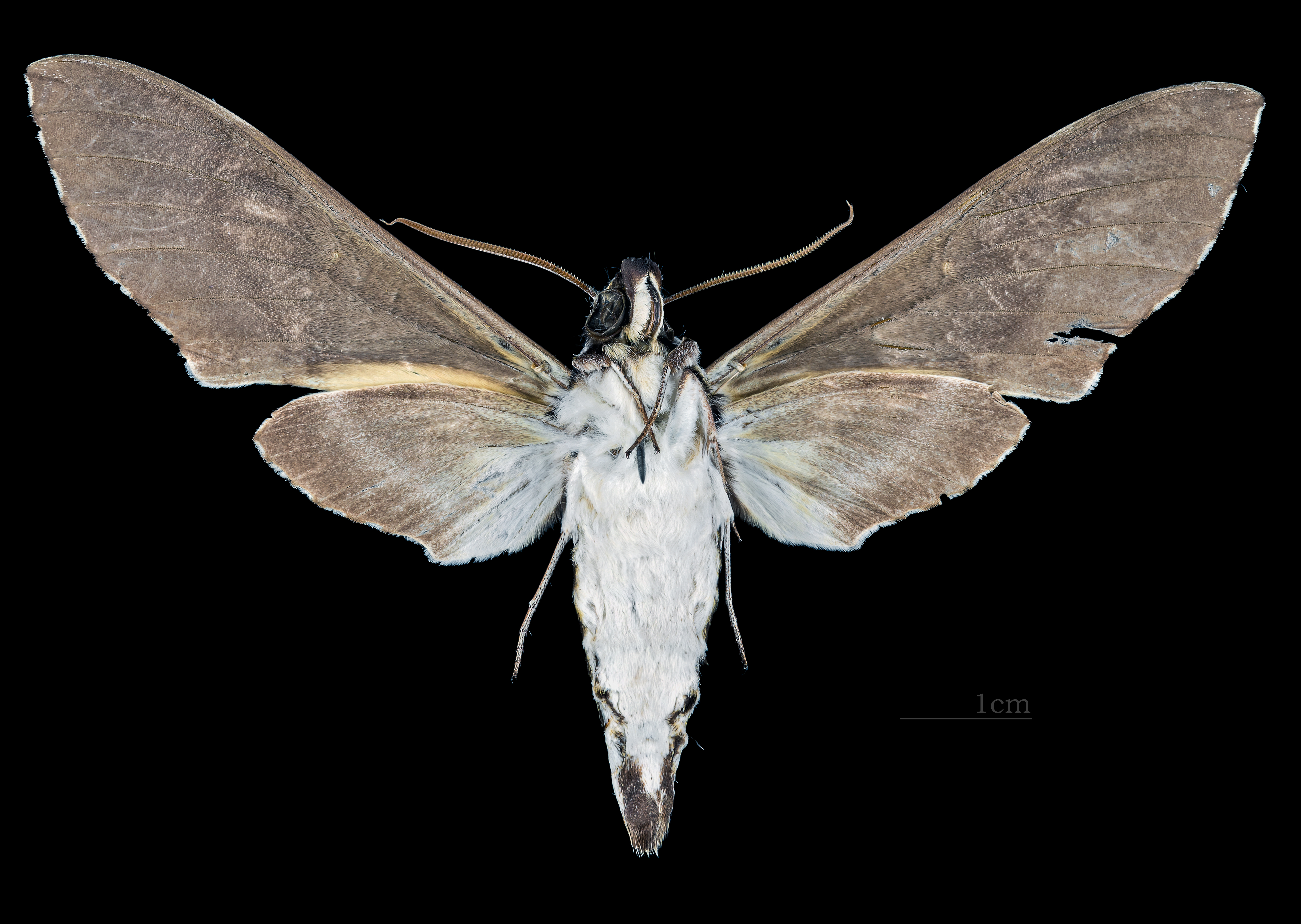 Manduca lefeburii - △ Ventral side Collection of the Mathematician Laurent Schwartz